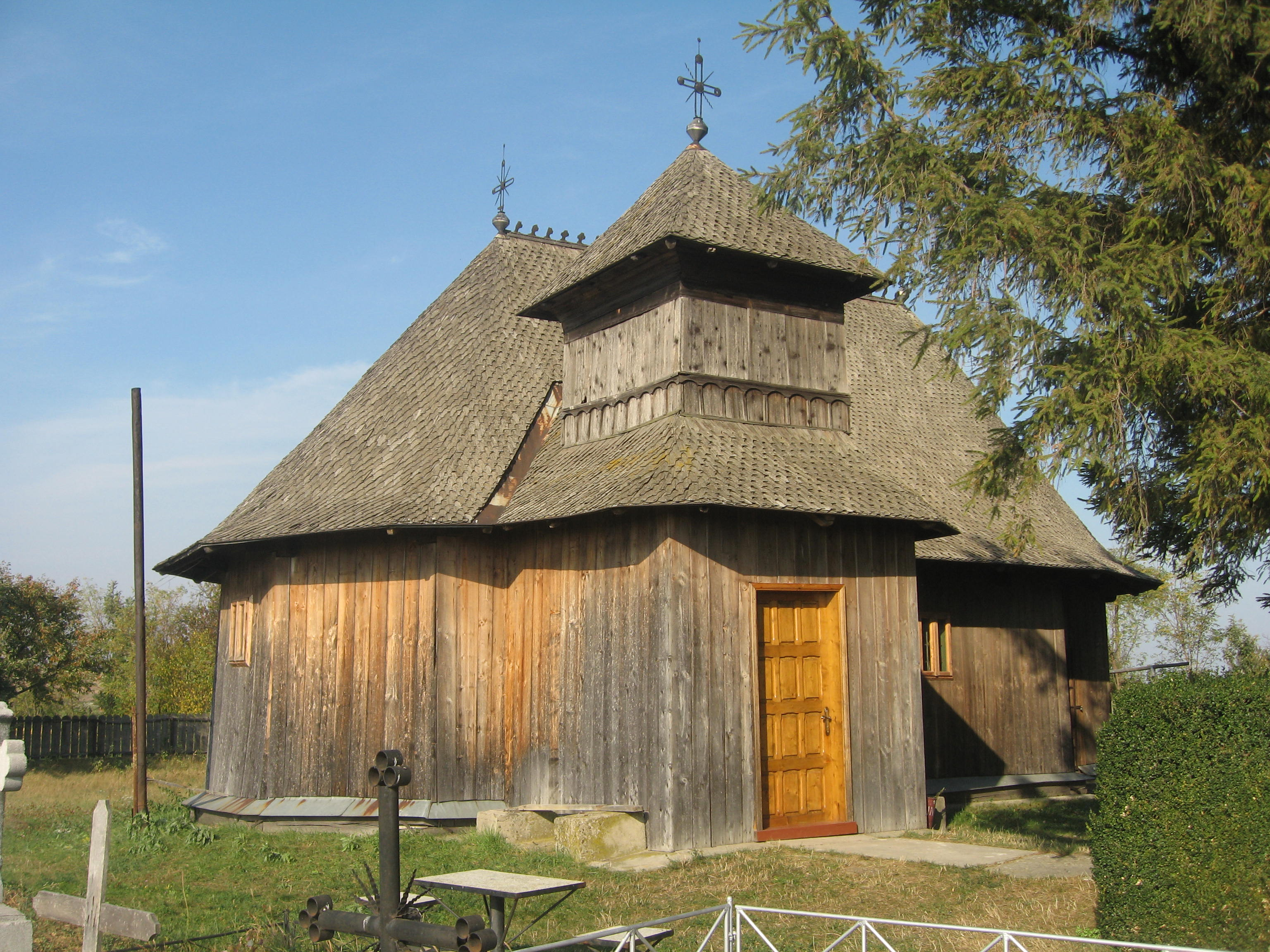 Biserica de lemn din Fedeleşeni